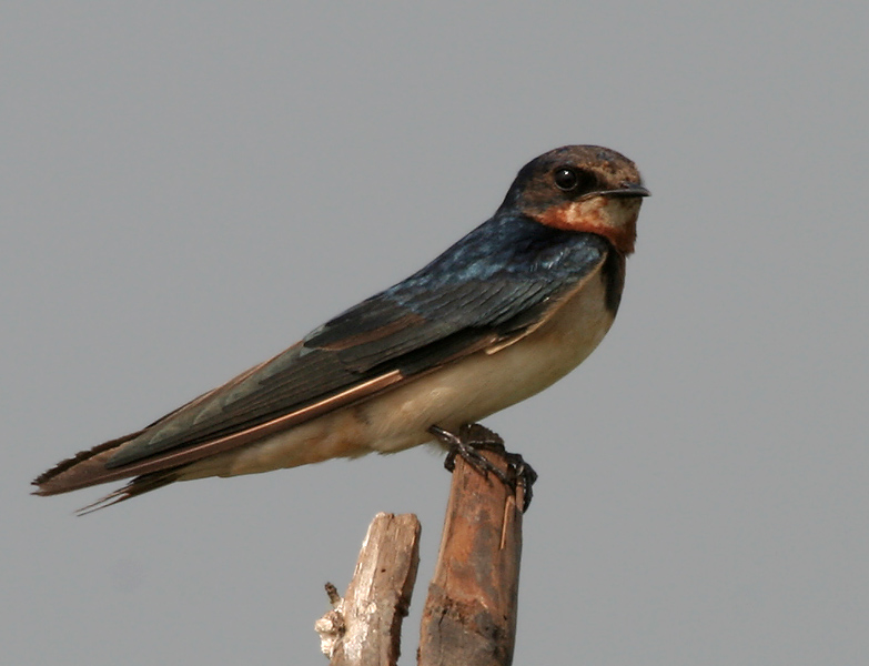 Barn Swallow Hirundo rustica in Kolleru, Andhra Pradesh, India.